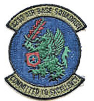 423d Air Base Squadron Patch Scan (Author)